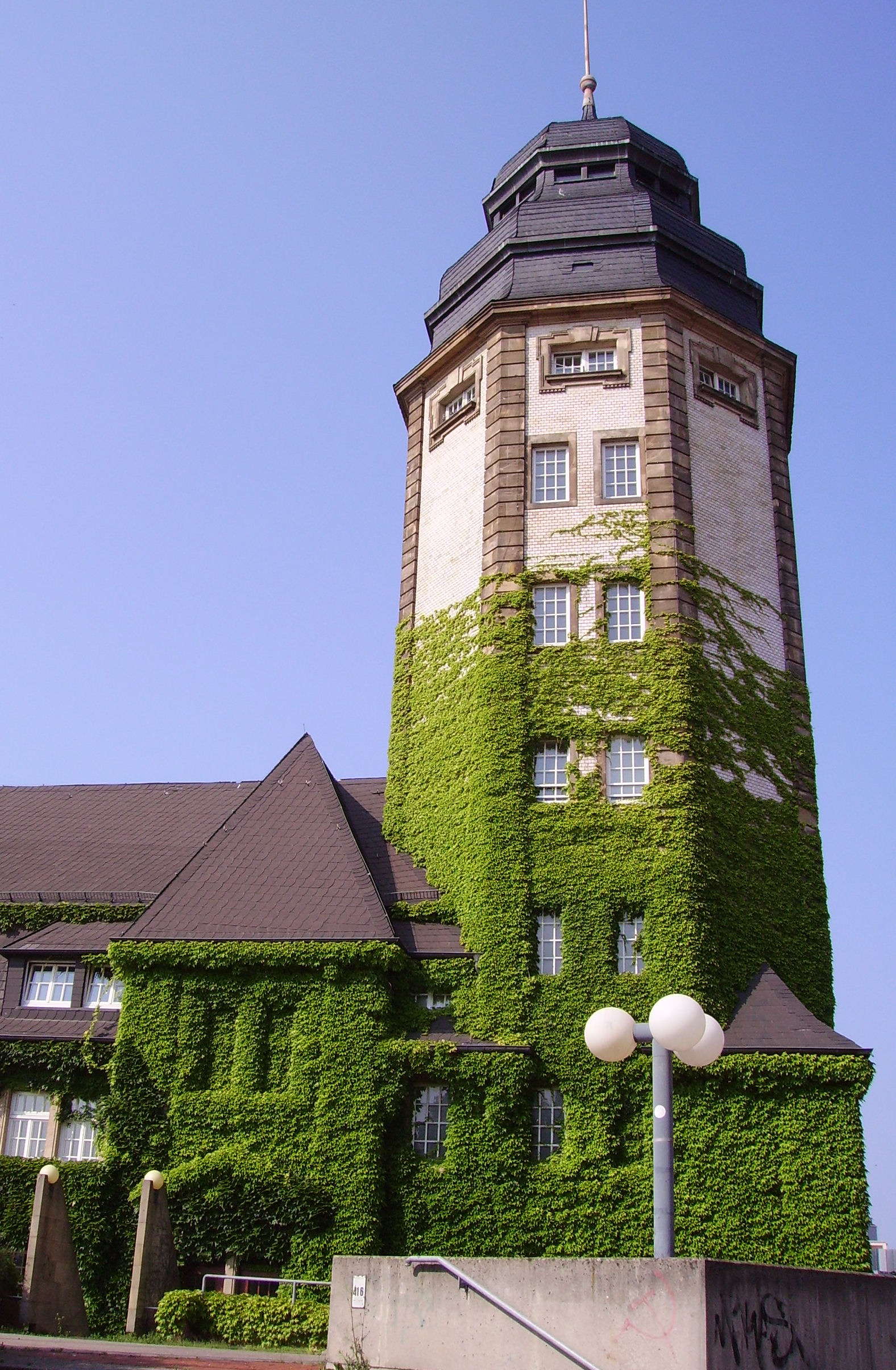 view of Mannheim, Germany